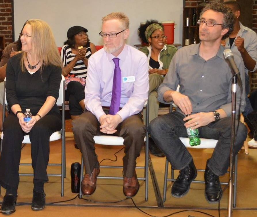 Talkback